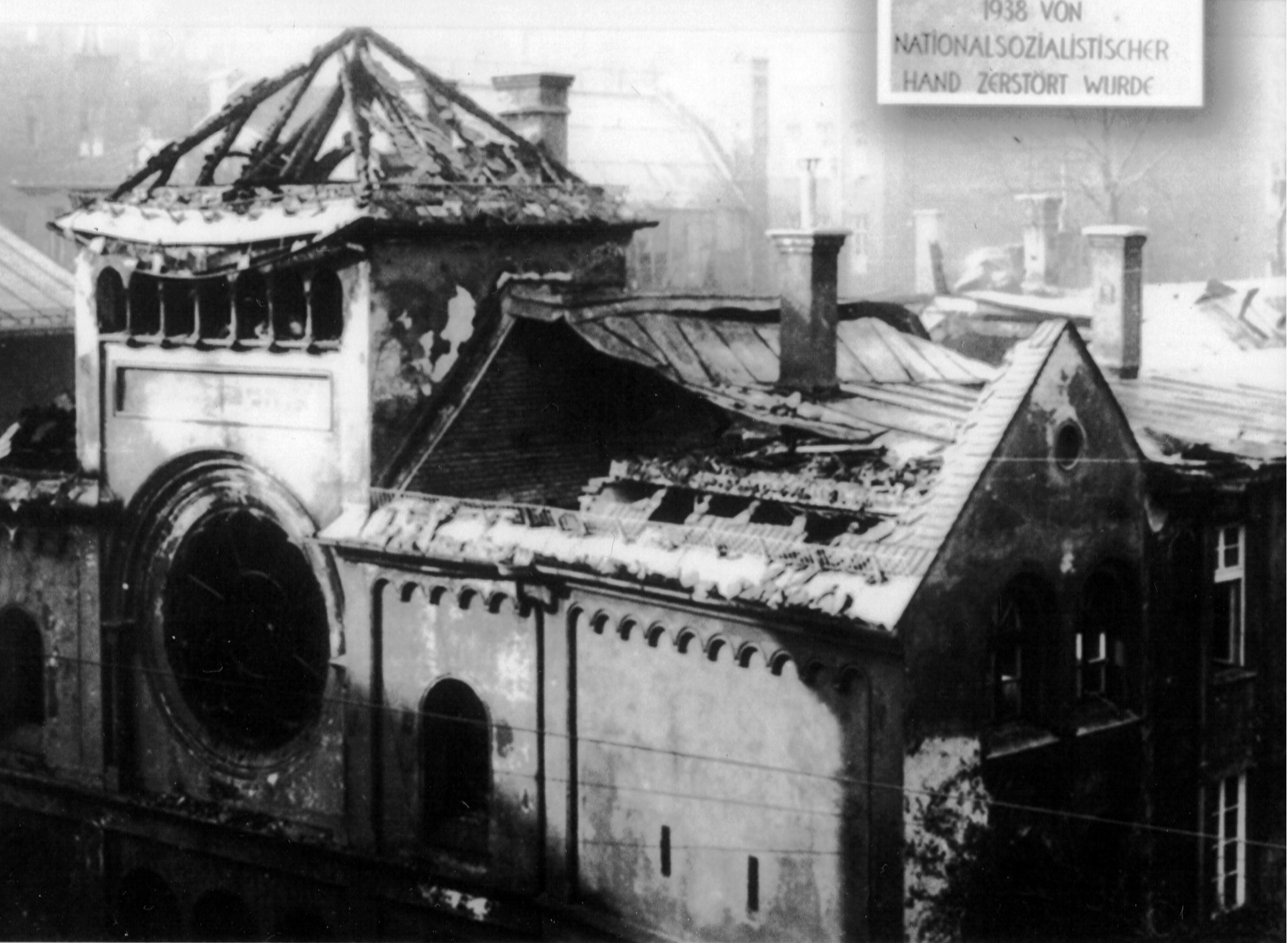 Ruined Ohel Yaakov shul in Munich